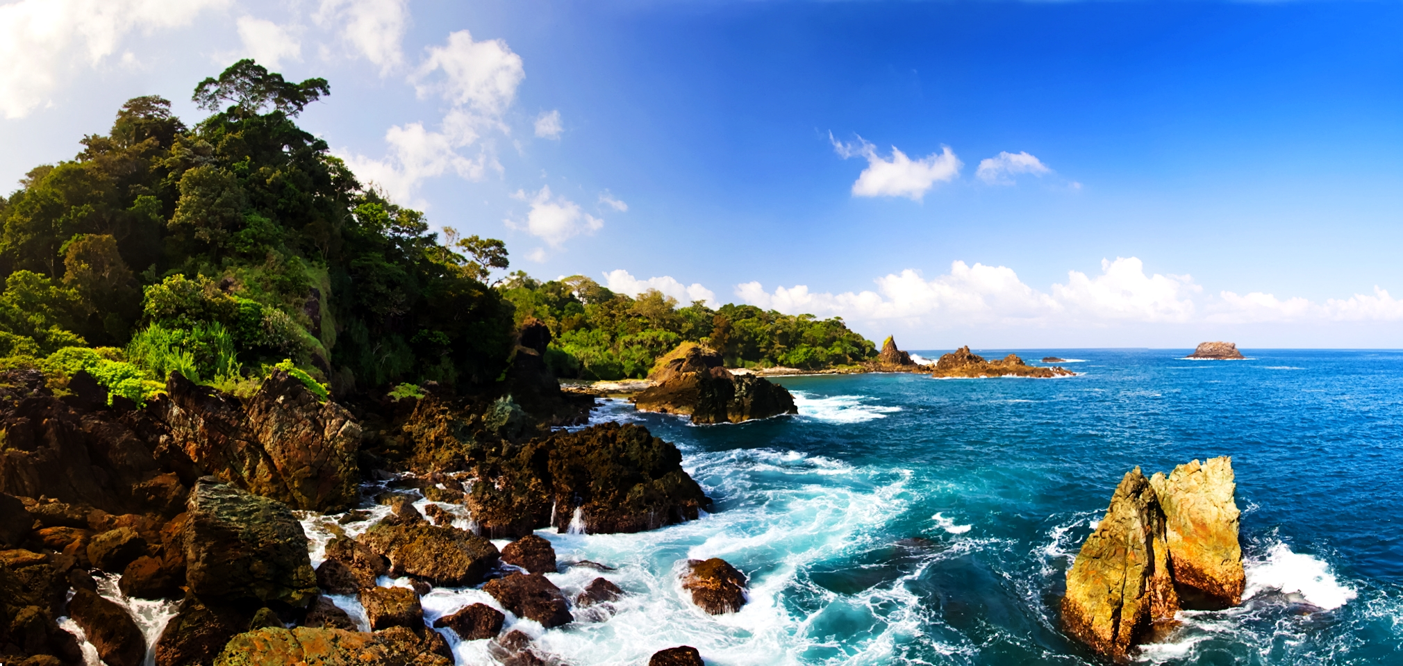 Tanjung Layar is a becah in Sawarna, Bayah, Lebak, Banten.